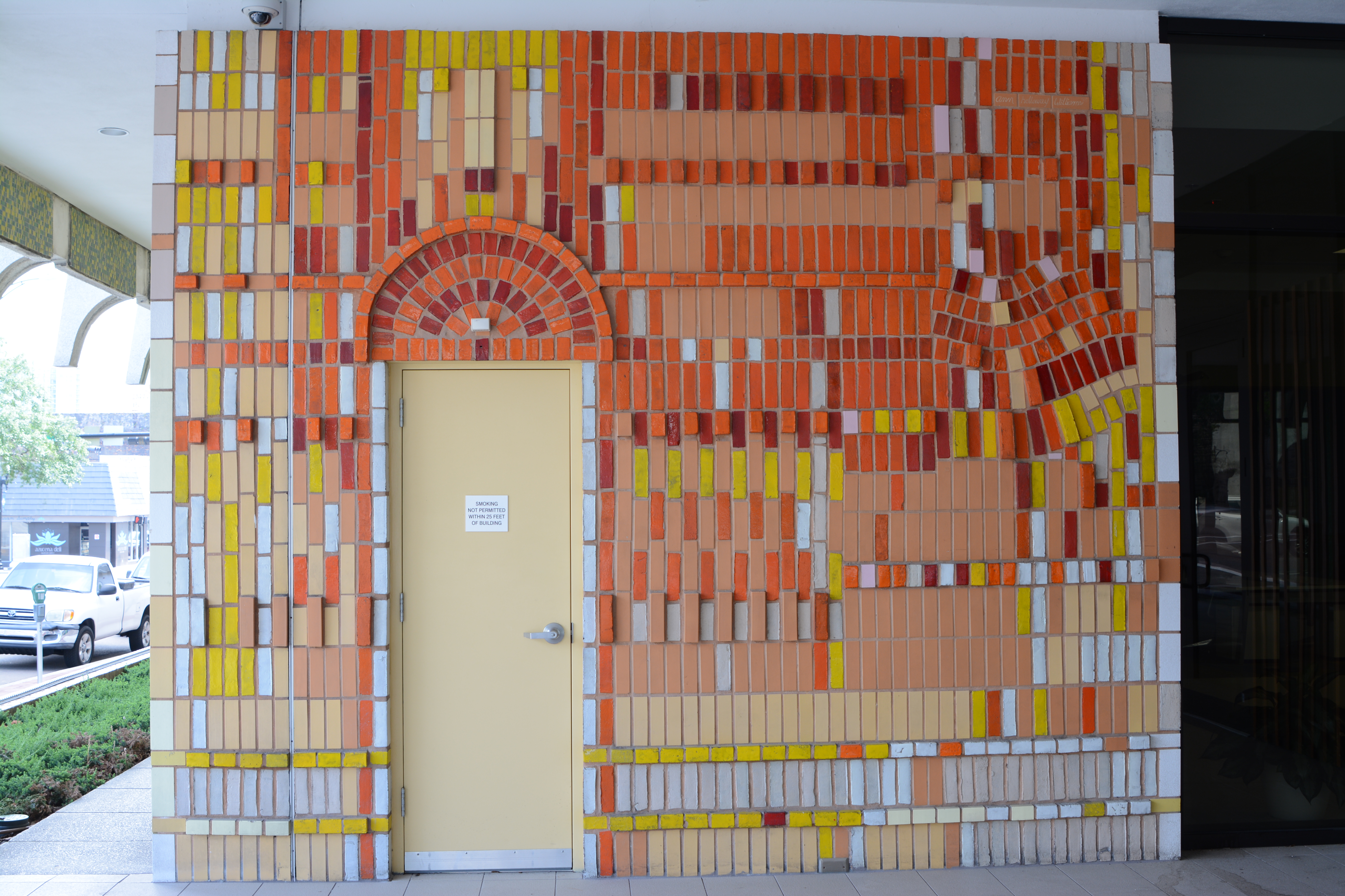 Jessie Ball duPont Center, Jacksonville, Florida, US. A former library.